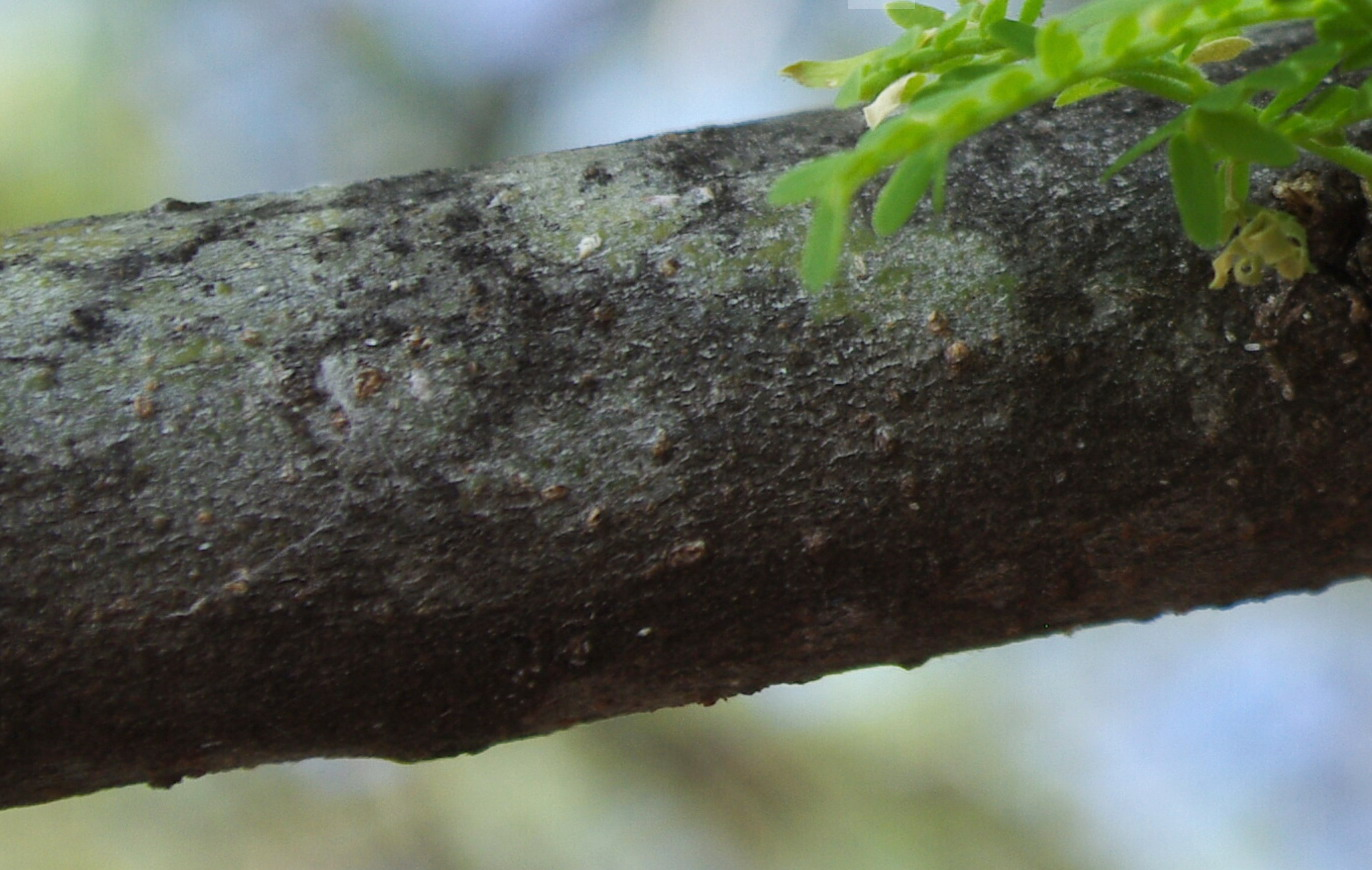 Photo was taken in Hawaii